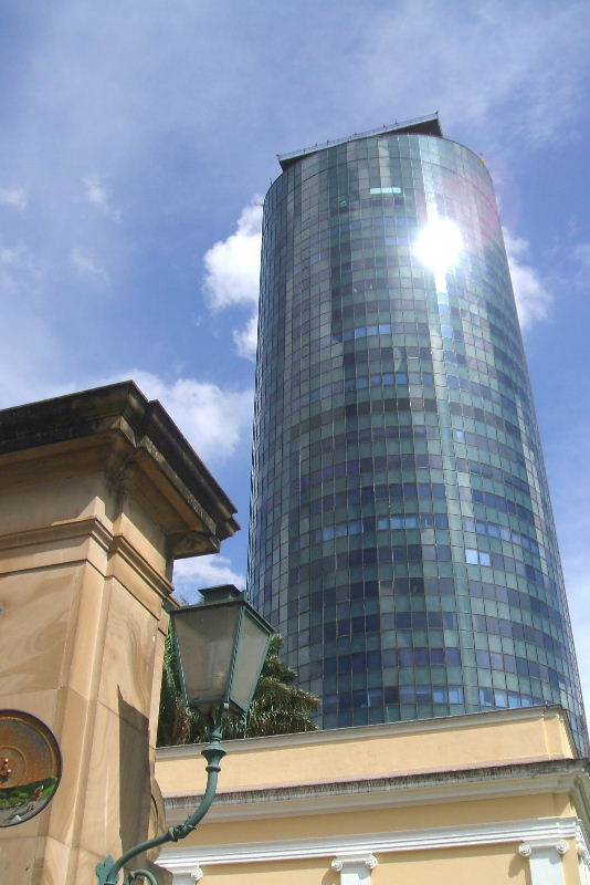 Dacon Building, São Paulo, Brazil.